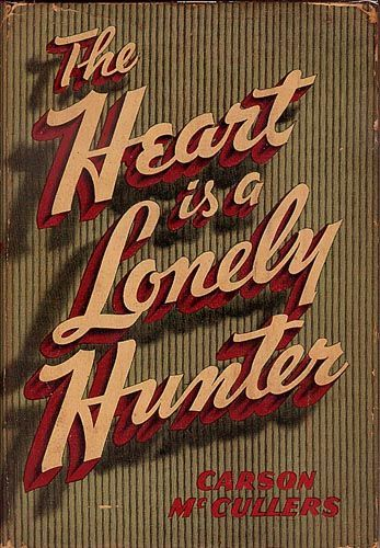 Carson McCullers, The Heart Is a Lonely Hunter, cover book 1940